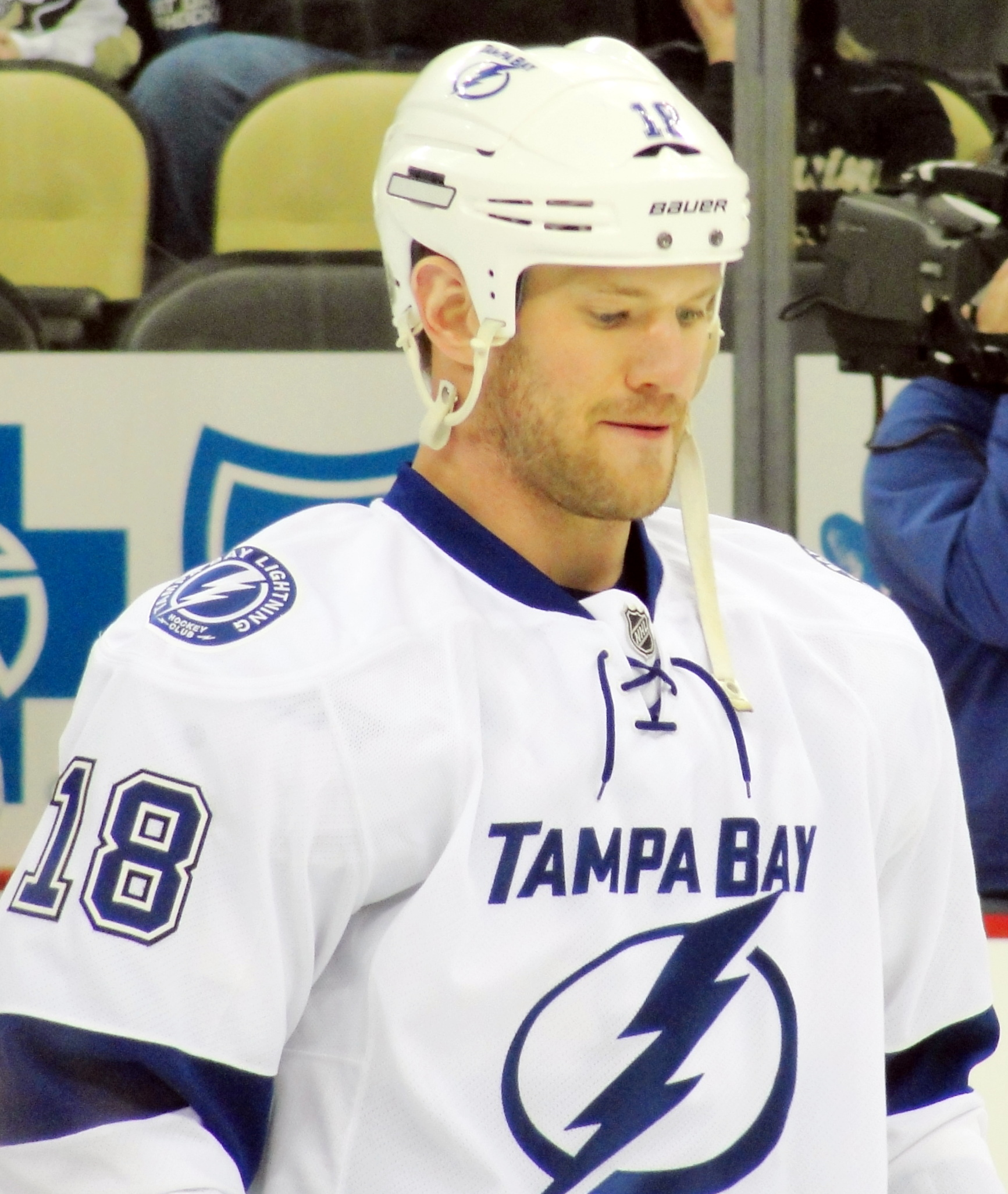 Adam Hall of the Tampa Bay Lightning during a February 12, 2012 game against the Pittsburgh Penguins at Consol Energy Center in Pittsburgh, PA.